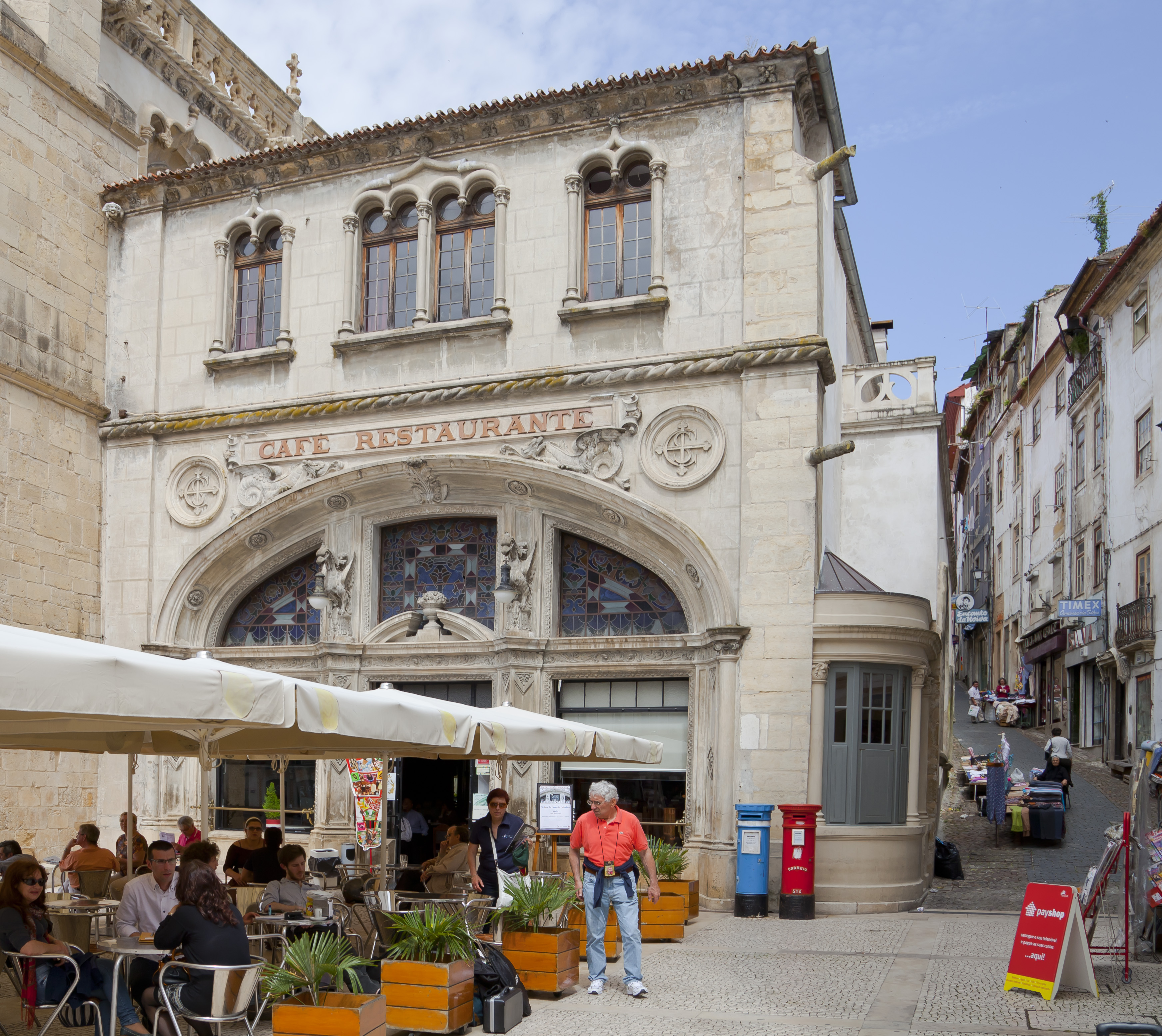 Exterior of Café Santa Cruz, Coimbra, Portugal